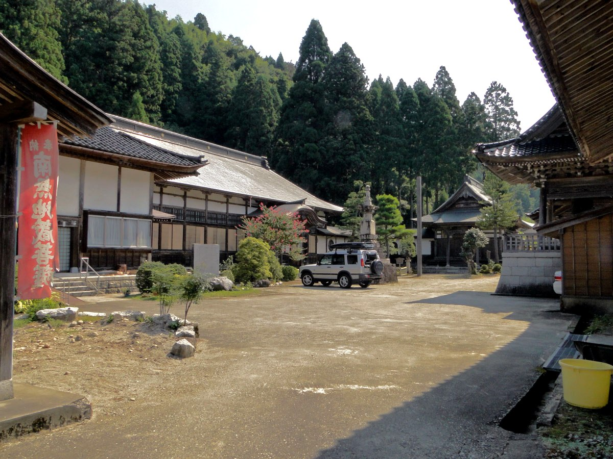 Ogawasan Senkouji Shinrenbo.Uodu